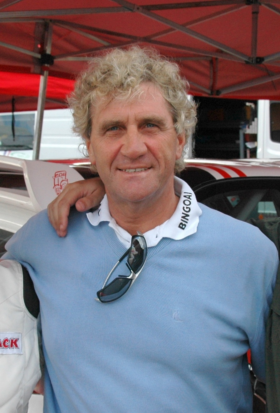 Jean-Marie Pfaff at Runa Ralley 8 September 2007